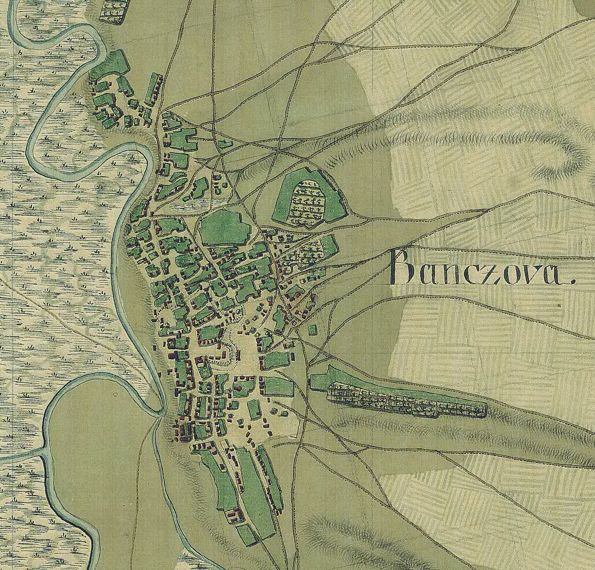 Pančevo in the cadastral maps: Josephinische Landesaufnahme, 1769-72. Josephinische Landaufnahme pg151